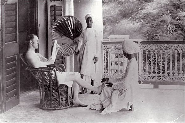 Indian servant washes the feet of the British master. XIXth century.